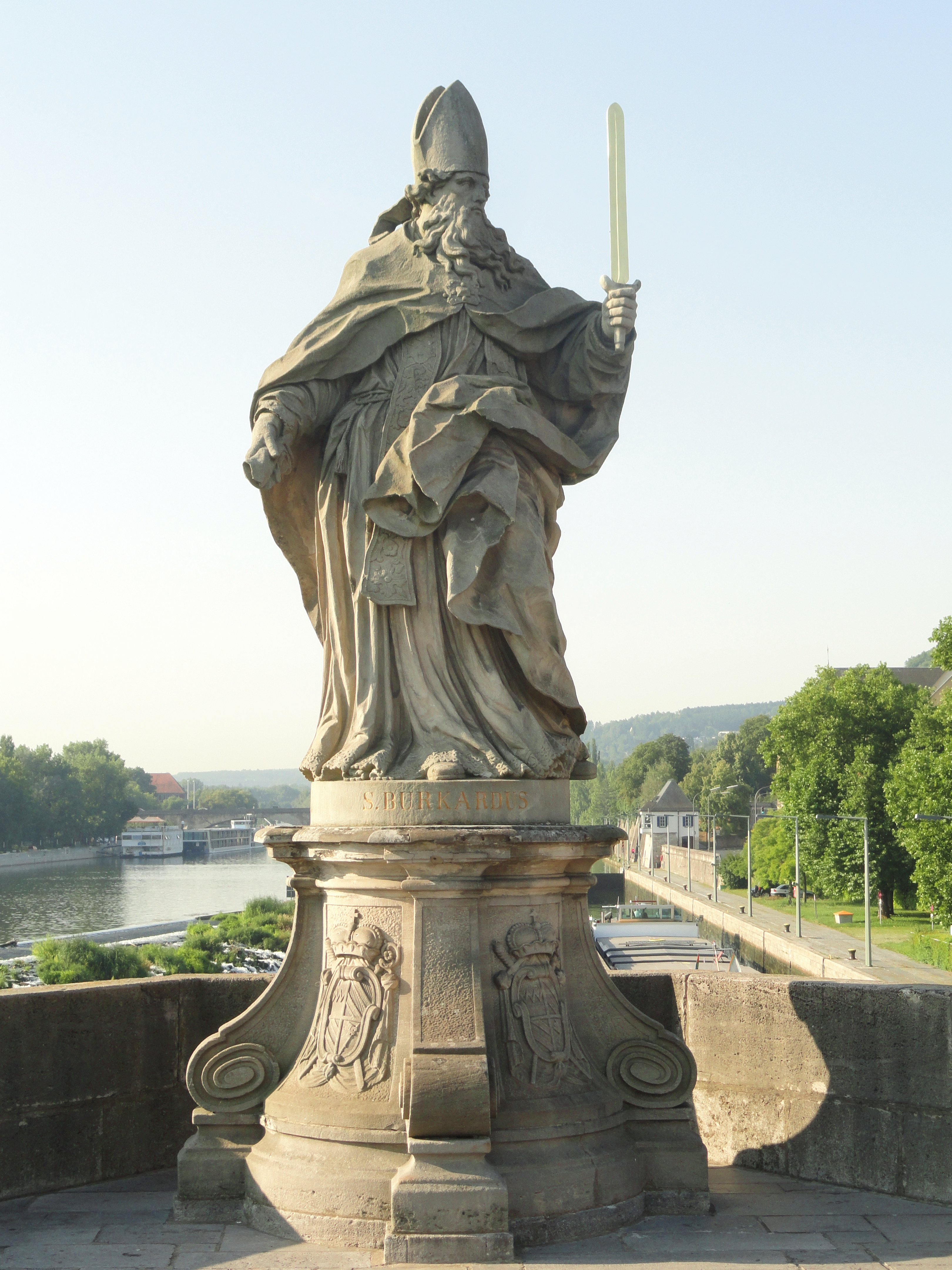 Statue on the Alte Mainbrücke in Würzburg, Germany.